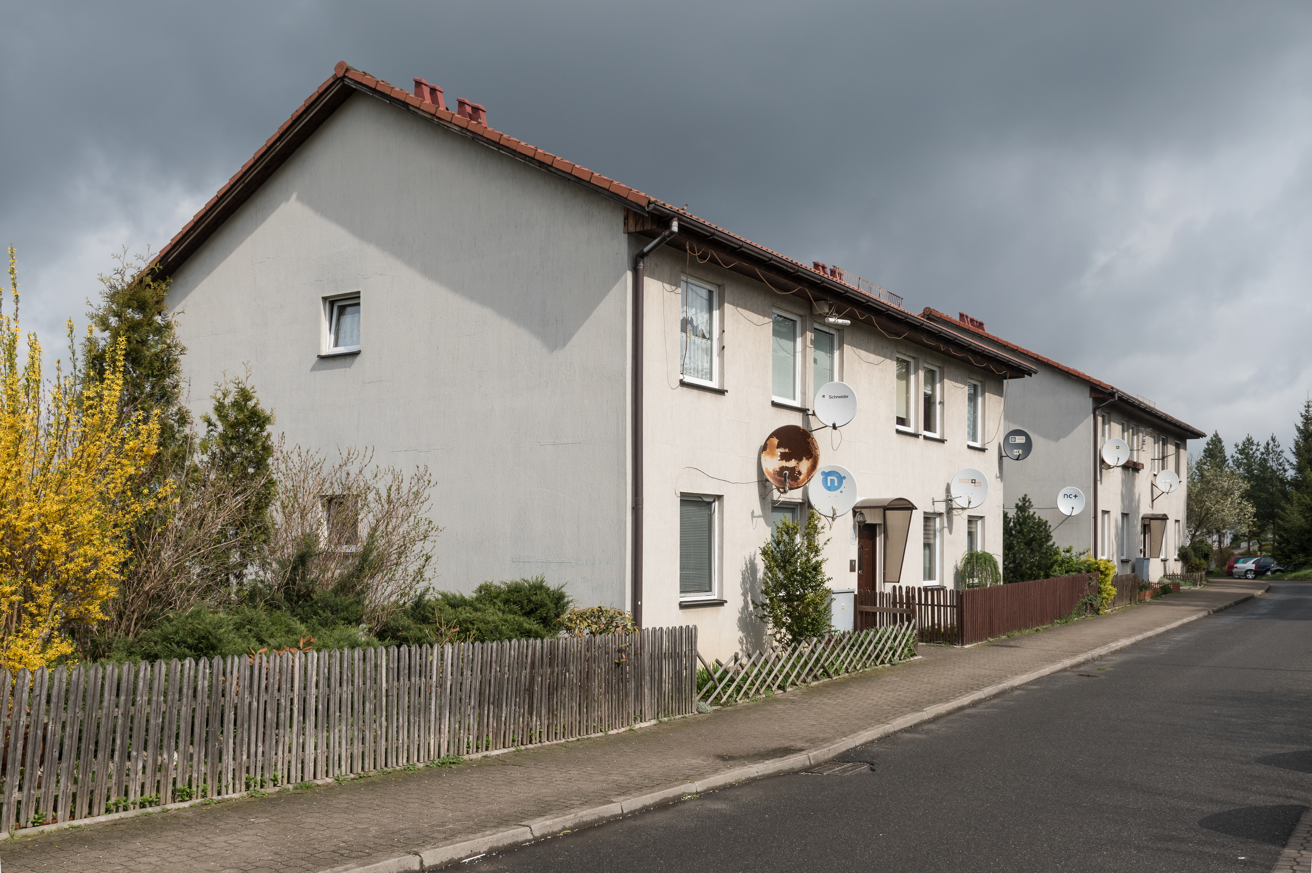 Radosna Street in Kłodzko